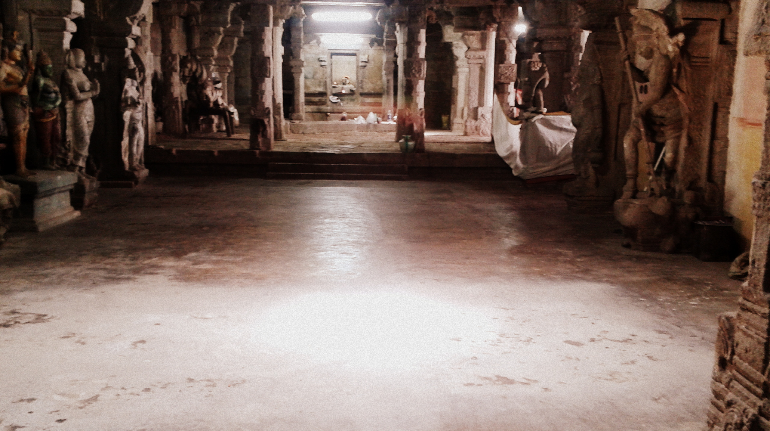 Rock Fort